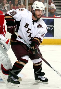 JustSports Photography